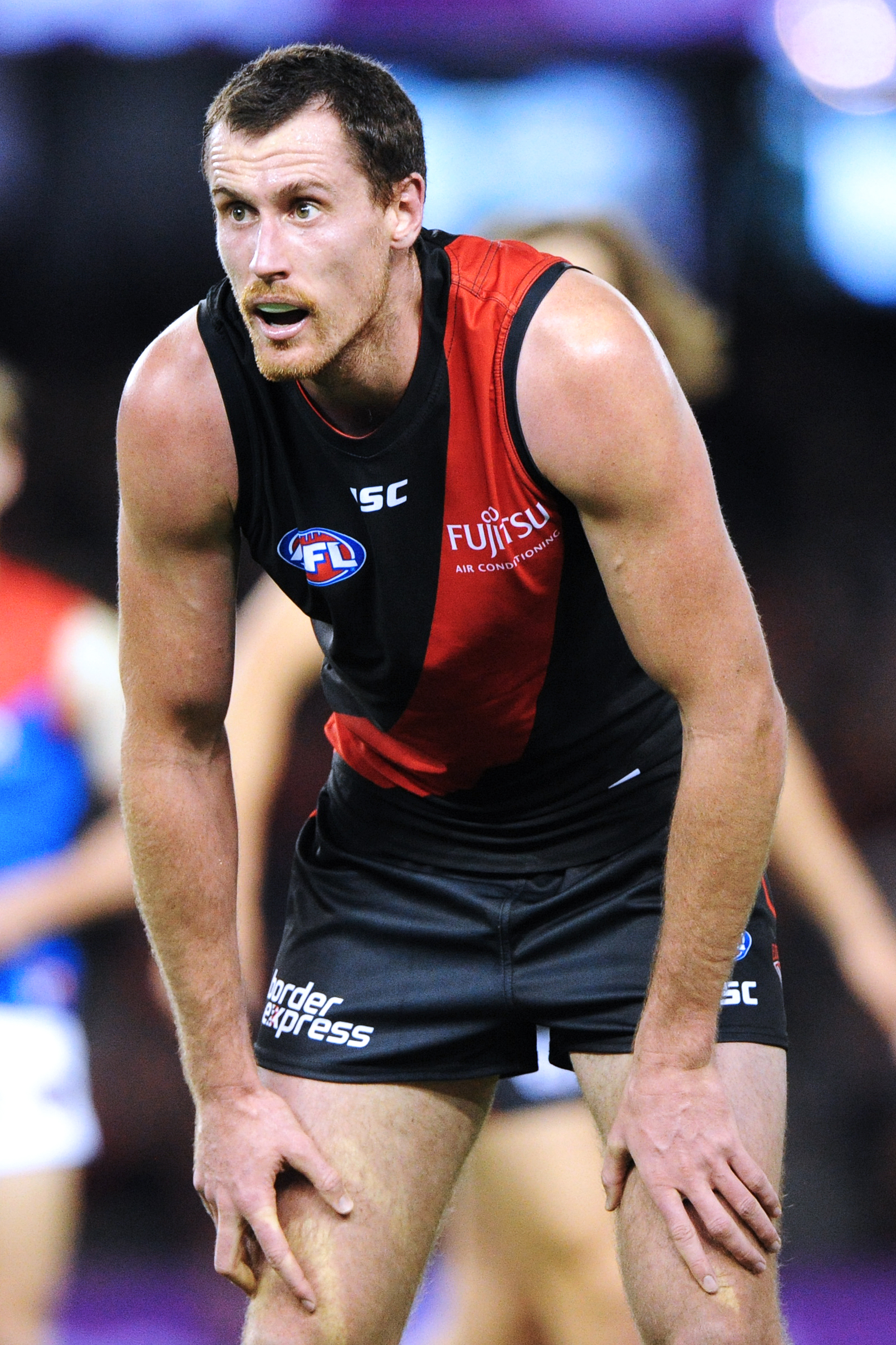 Matthew Leuenberger of Essendon during the 2018 AFL round 6 match between Essendon and Melbourne at Etihad Stadium on Sunday, 29 April 2018 in Melbourne, Victoria.